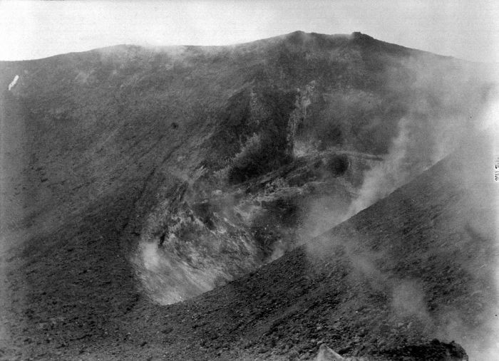 The crater of the Batur volcano